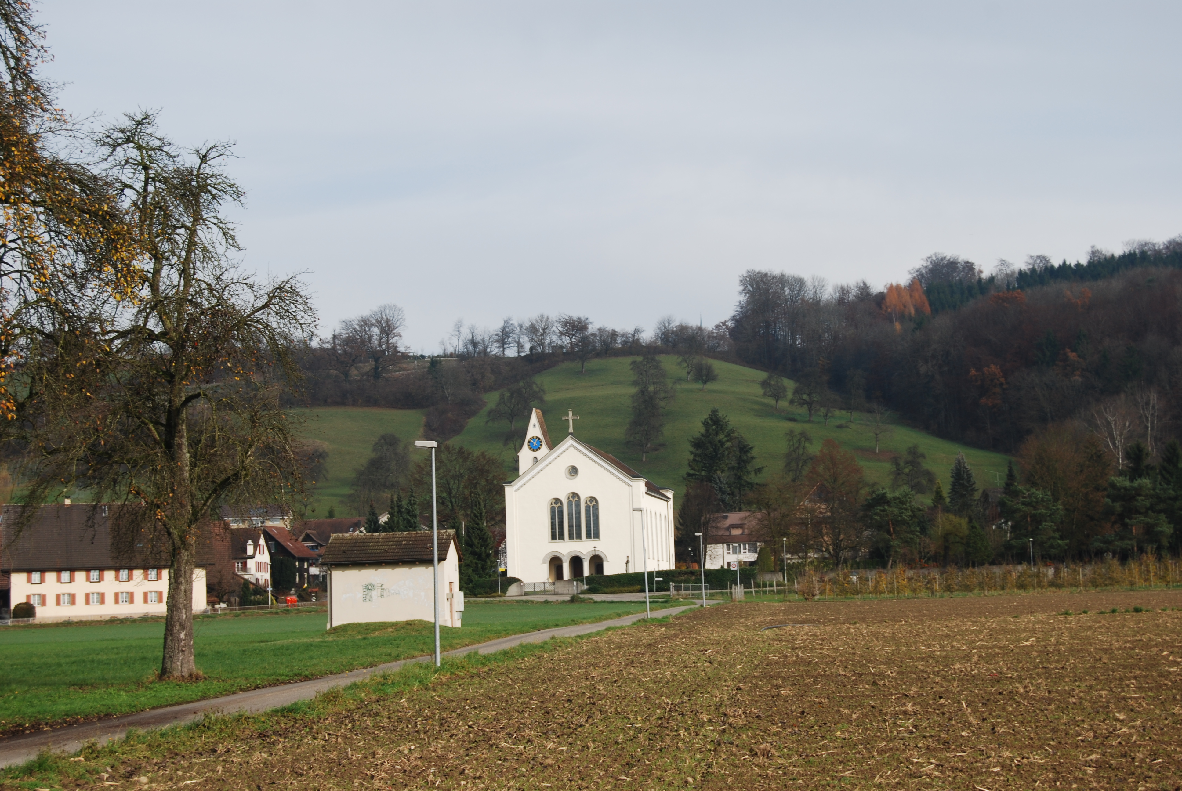 Church of Zufikon, canton of Aargau, SwitzerlandEsperanto: Preĝejo de Zufikon, Kantono Argovio, Svislando